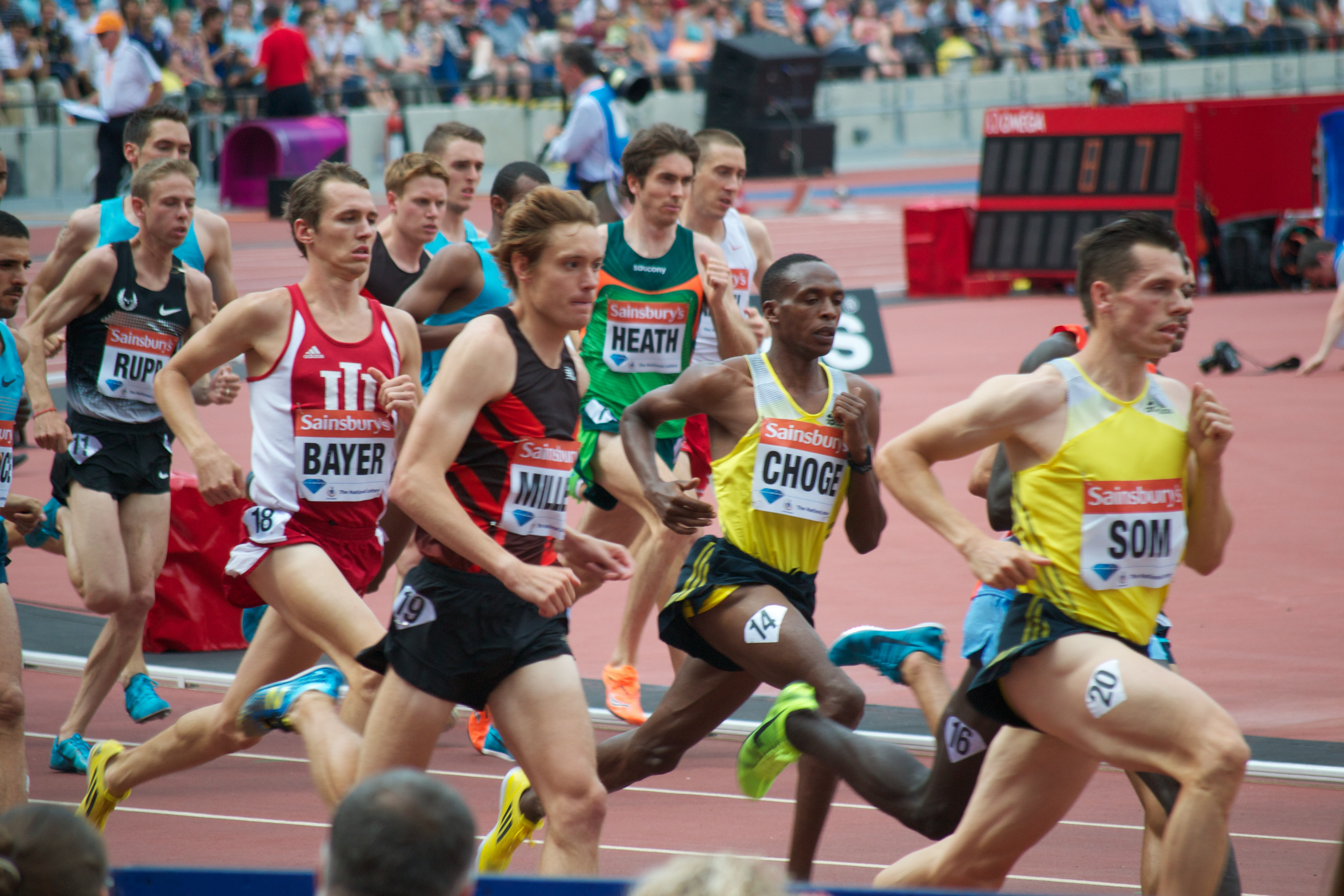 London Diamond League